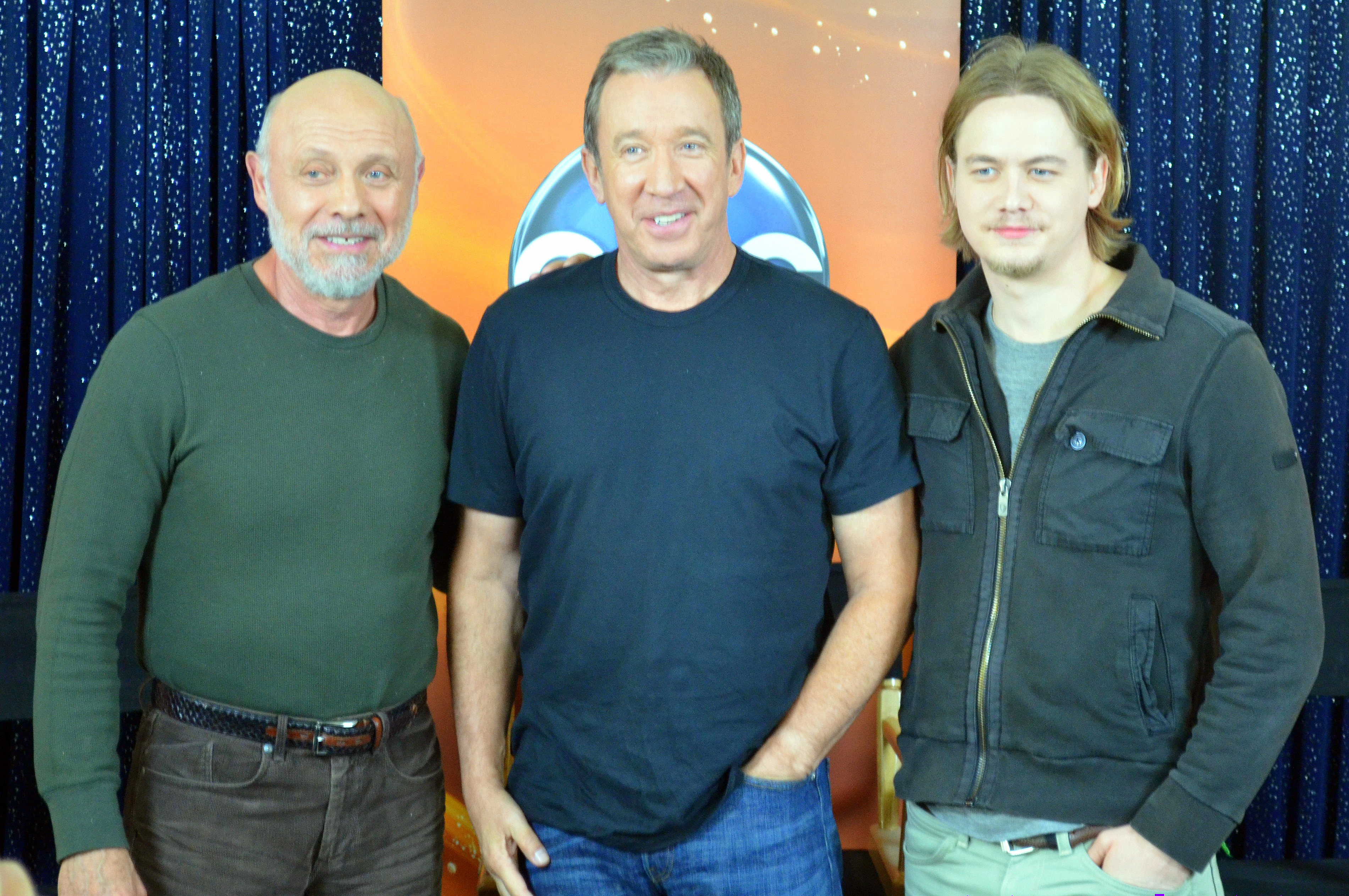 Actors Héctor Elizondo & Tim Allen & Christoph Sanders On the Set of ABC's “Last Man Standing” 2012.